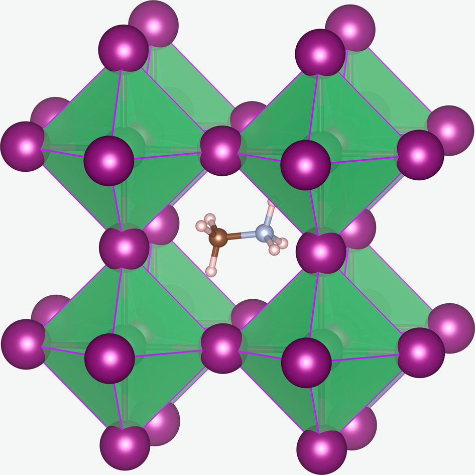 CH3NH3PbI3 structure. Methylammonium cation (CH3NH3+) is surrounded by 12 nearest-neighbour iodide ions in corner-sharing PbI6 octahedra.